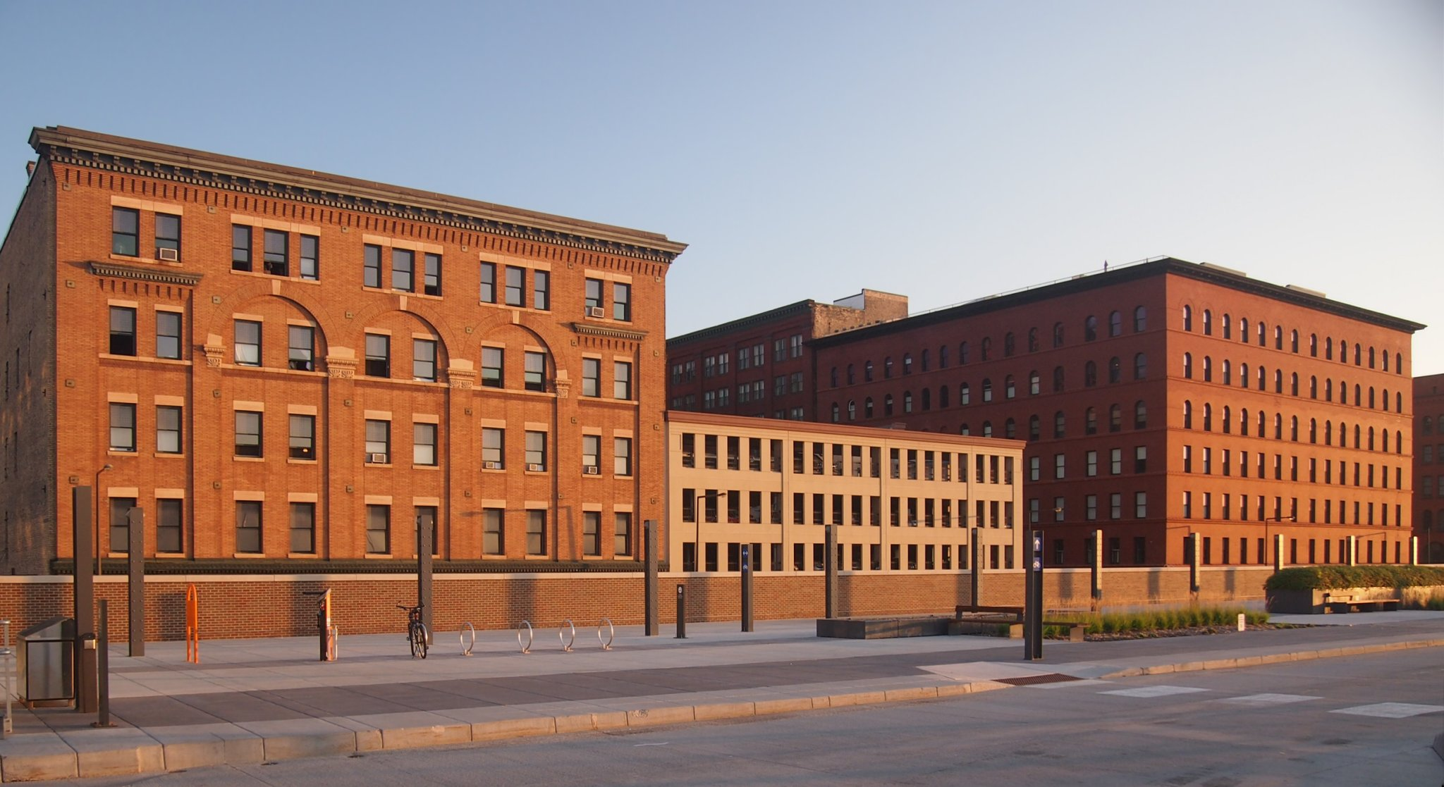 The 1901 Weyerhauser-Denkman Building, a modern parking garage, and the 1887 James J. Hill Office Building, part of Lowertown Historic District, viewed at dawn from the Union Station bus platform.